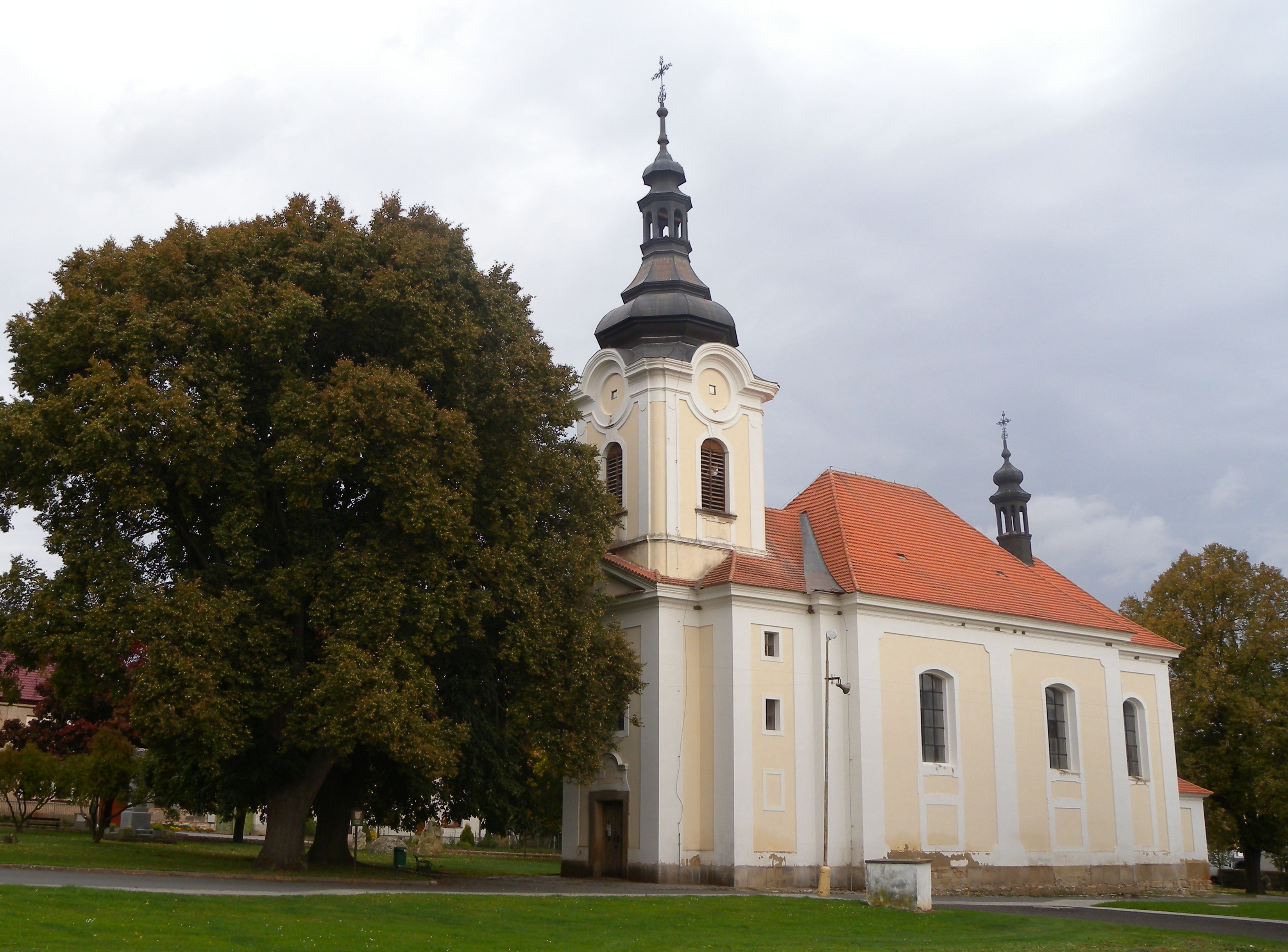 All Saints Church in village square of Hředle (Rakovník discrict, Central Bohemian Region of the Czech Republik)